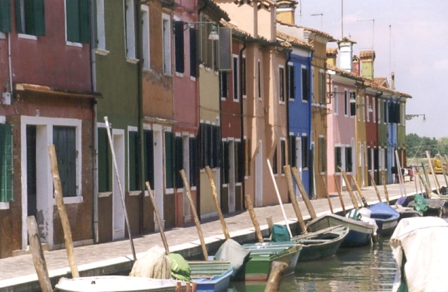 Colourful houses on Burano, Venice Lagoon, Italy.